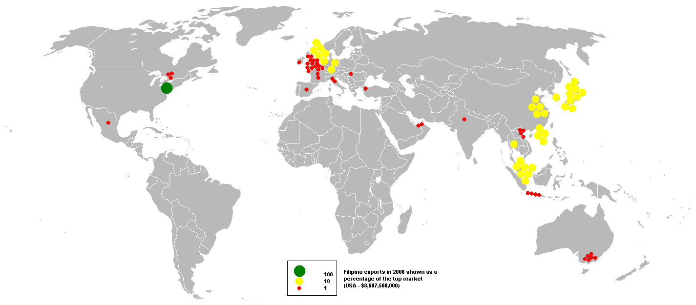 This bubble map shows the global distribution of Filipino exports in 2006 as a percentage of the top market (USA - $8,607,580,000). This map is consistent with incomplete set of data too as long as the top producer is known. It resolves the accessibility issues faced by colour-coded maps that may not be properly rendered in old computer screens. Data was extracted on 28th September 2007 from Based on :Image:BlankMap-World.png